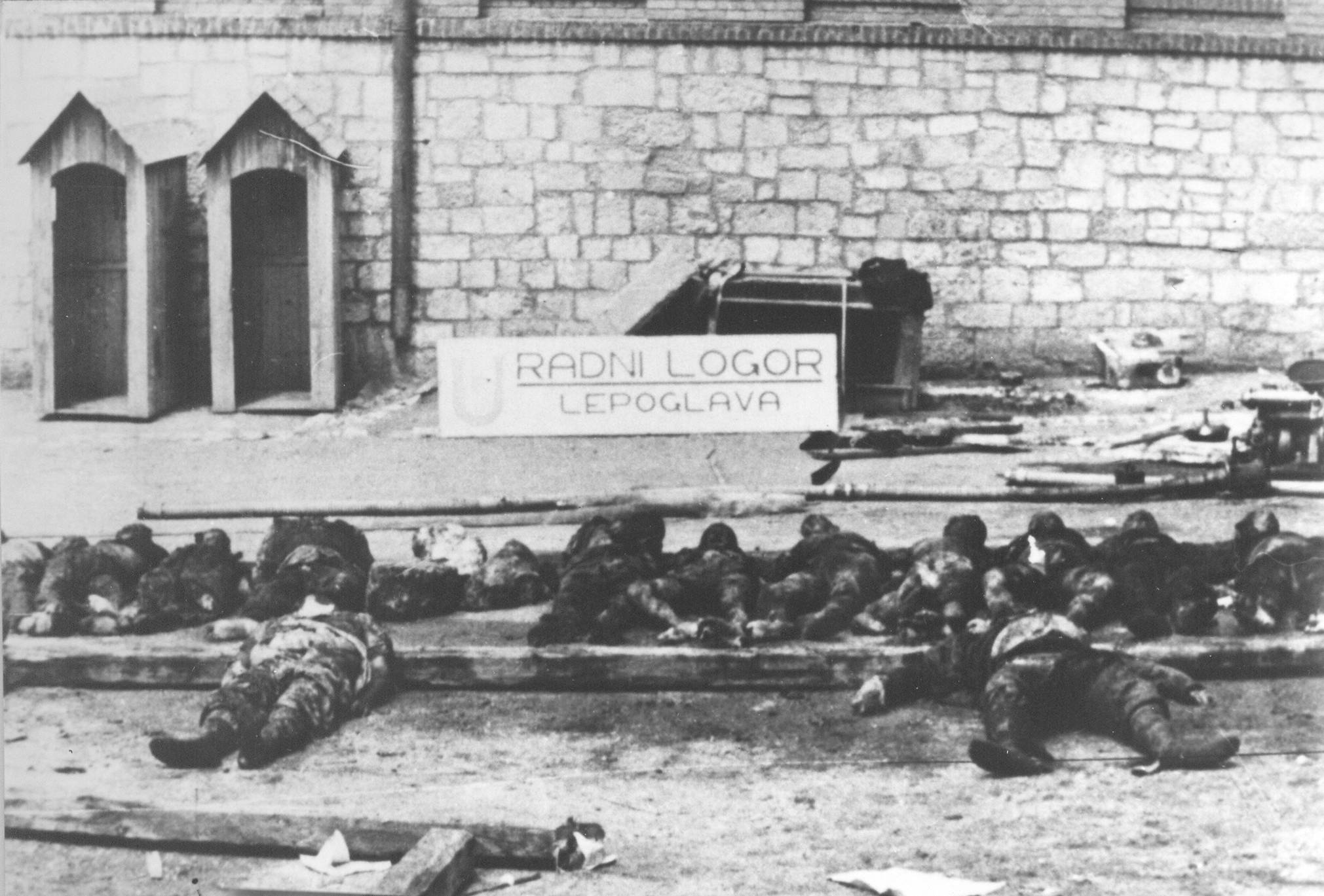 Corpses of murdered inmates of Lepoglava camp found in the camp's well